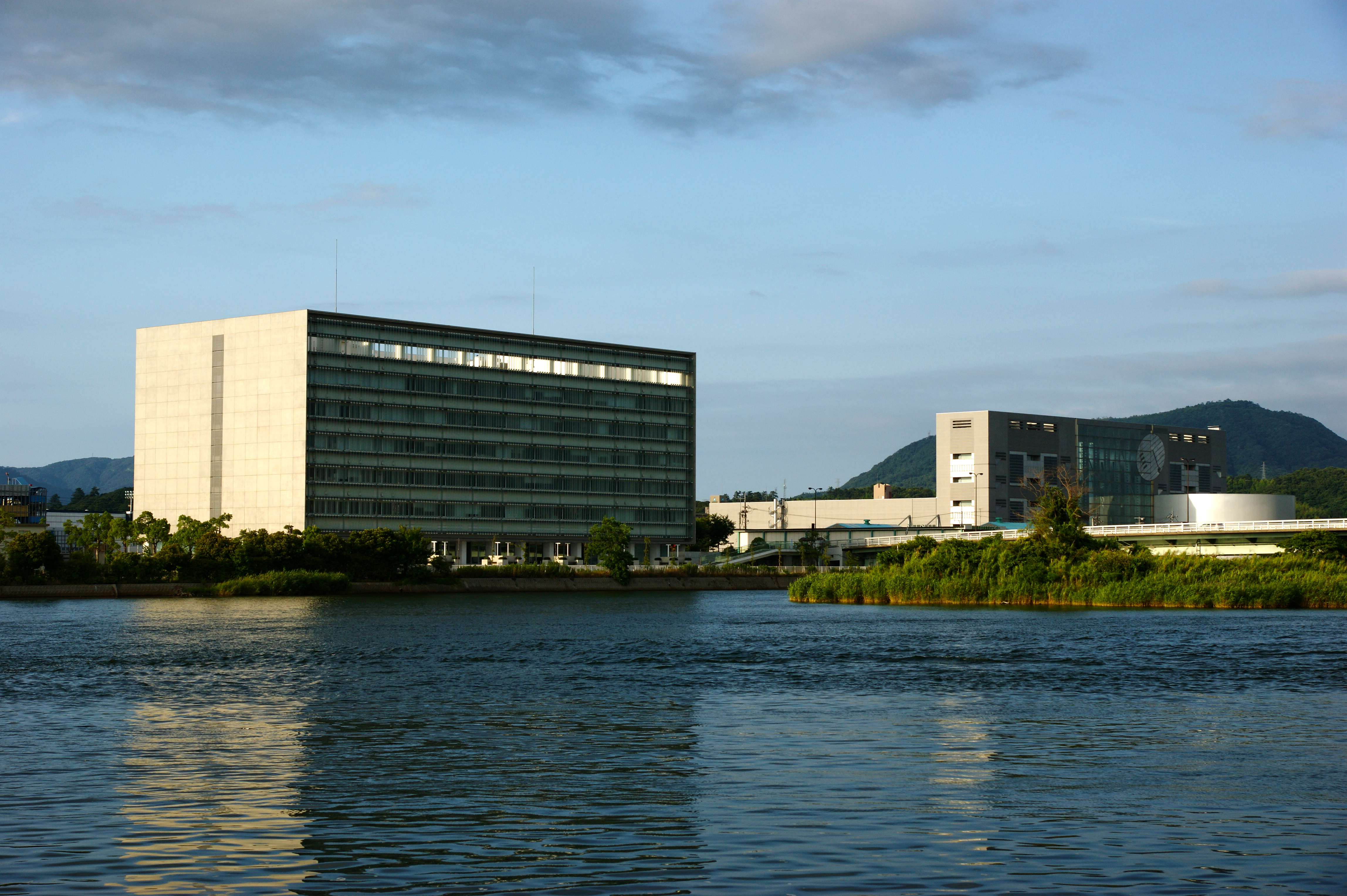 "Kunibiki Messe" (Shimane Prefectural Convention Center) in Matsue, Shimane prefecture, Japan.